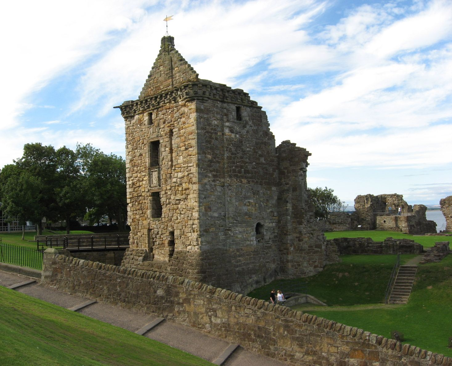 St. Andrews Castle, Scotland. Taken by myself.